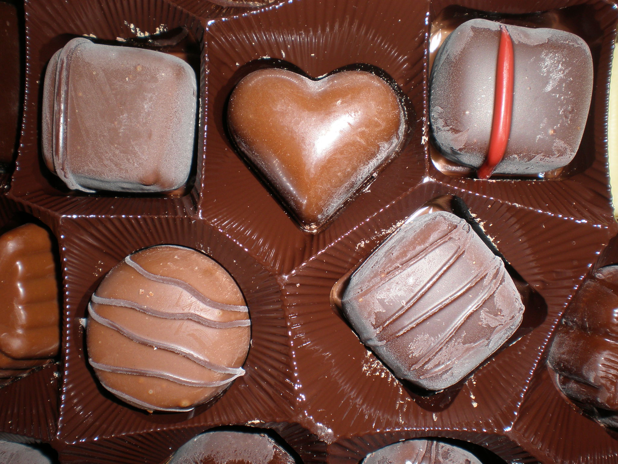 An assortment of Belgian chocolates